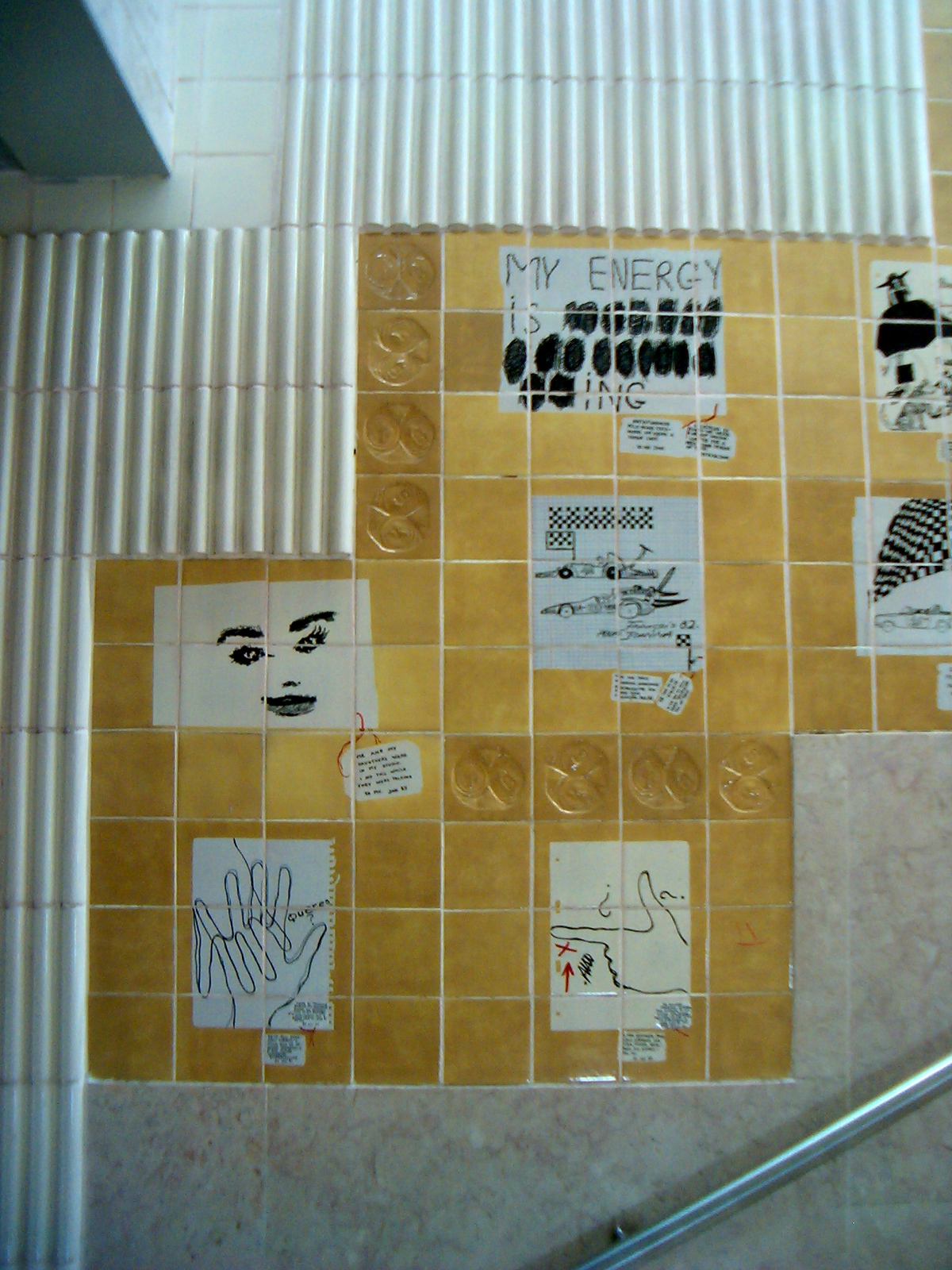 Metro station Quinta das Conchas (Lisboa)